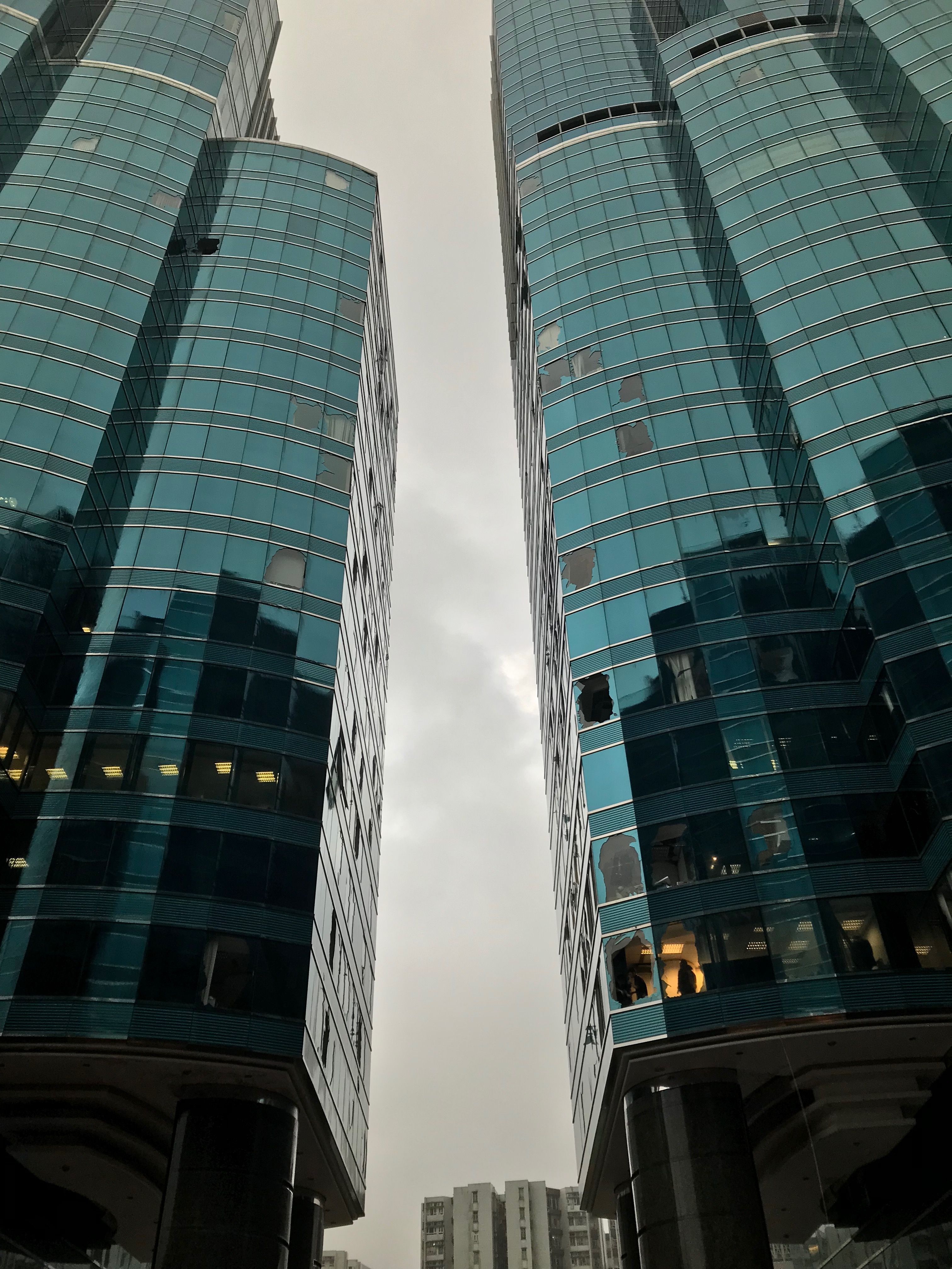 Window damage from typhoon Mangkut viewed from Grand Harbour Kowloon Hotel in Hong Kong.